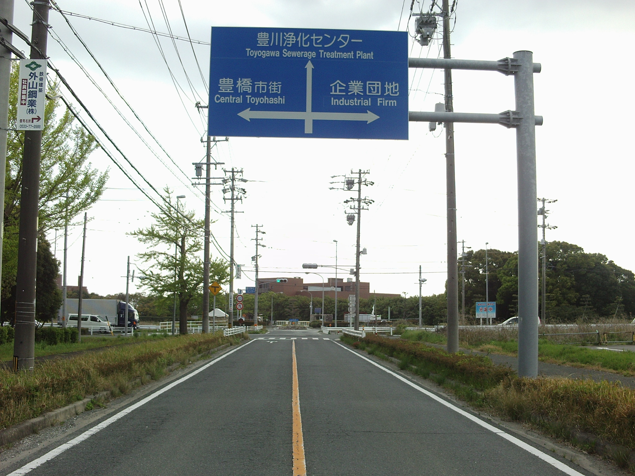 The Aichi Prefectural Road Route 395 in Mitocho Sawakihama, Toyokawa City